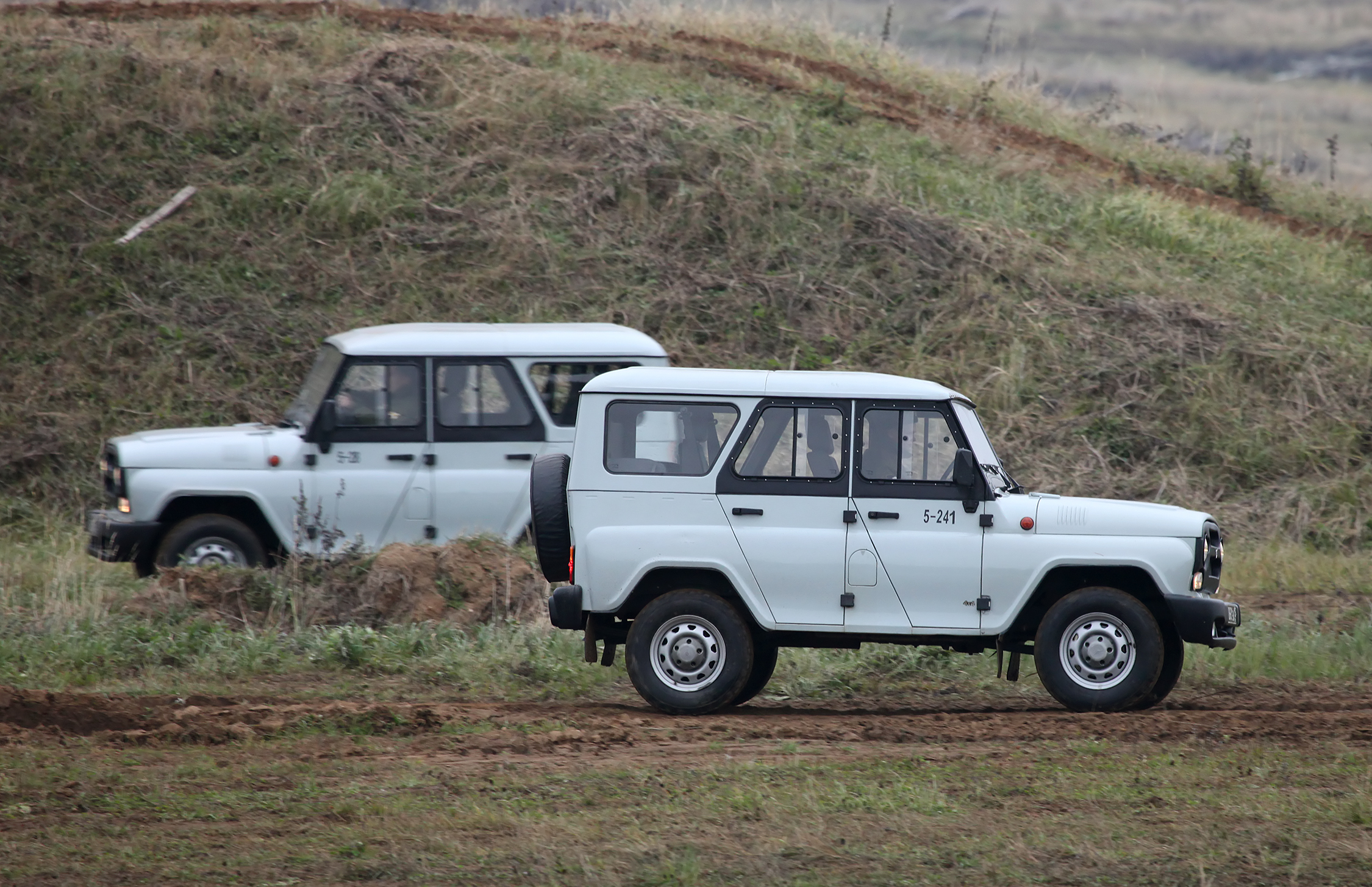 UAZ Hunter